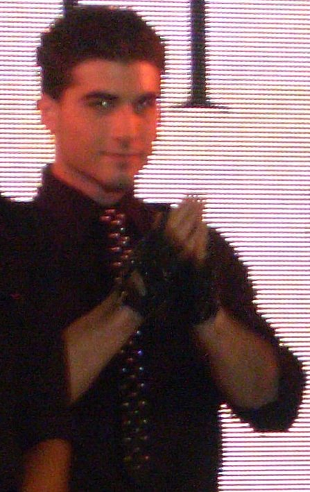 Canadian dancer Daniel Celebre at This Is It launch in HMV London.